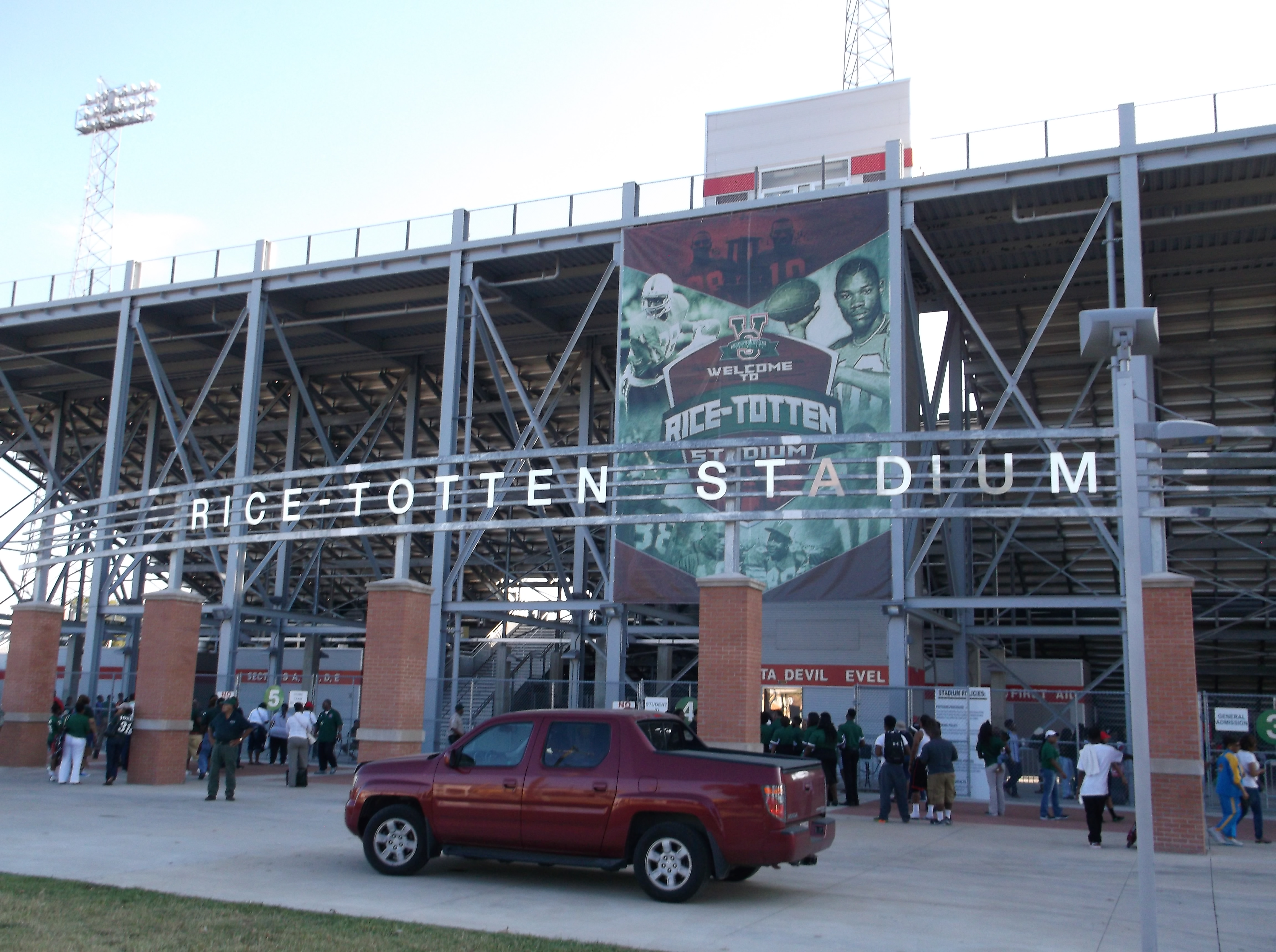 This is Rice-Totten Stadium located on the campus of Mississippi Valley State University in Itta Bena, Mississippi